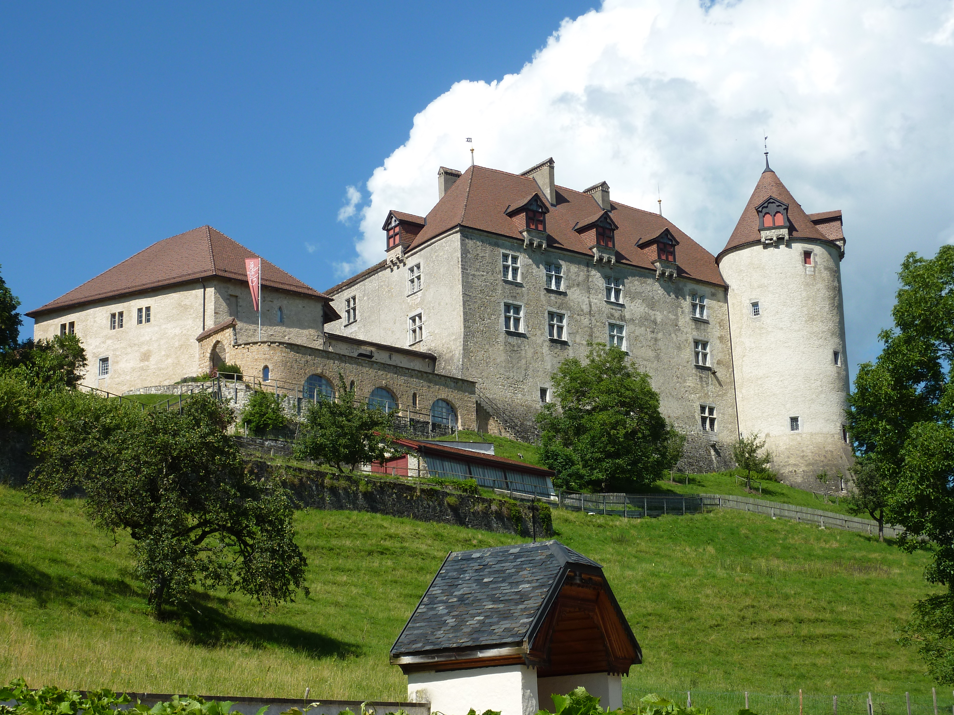 Château des comtes of Gruyères